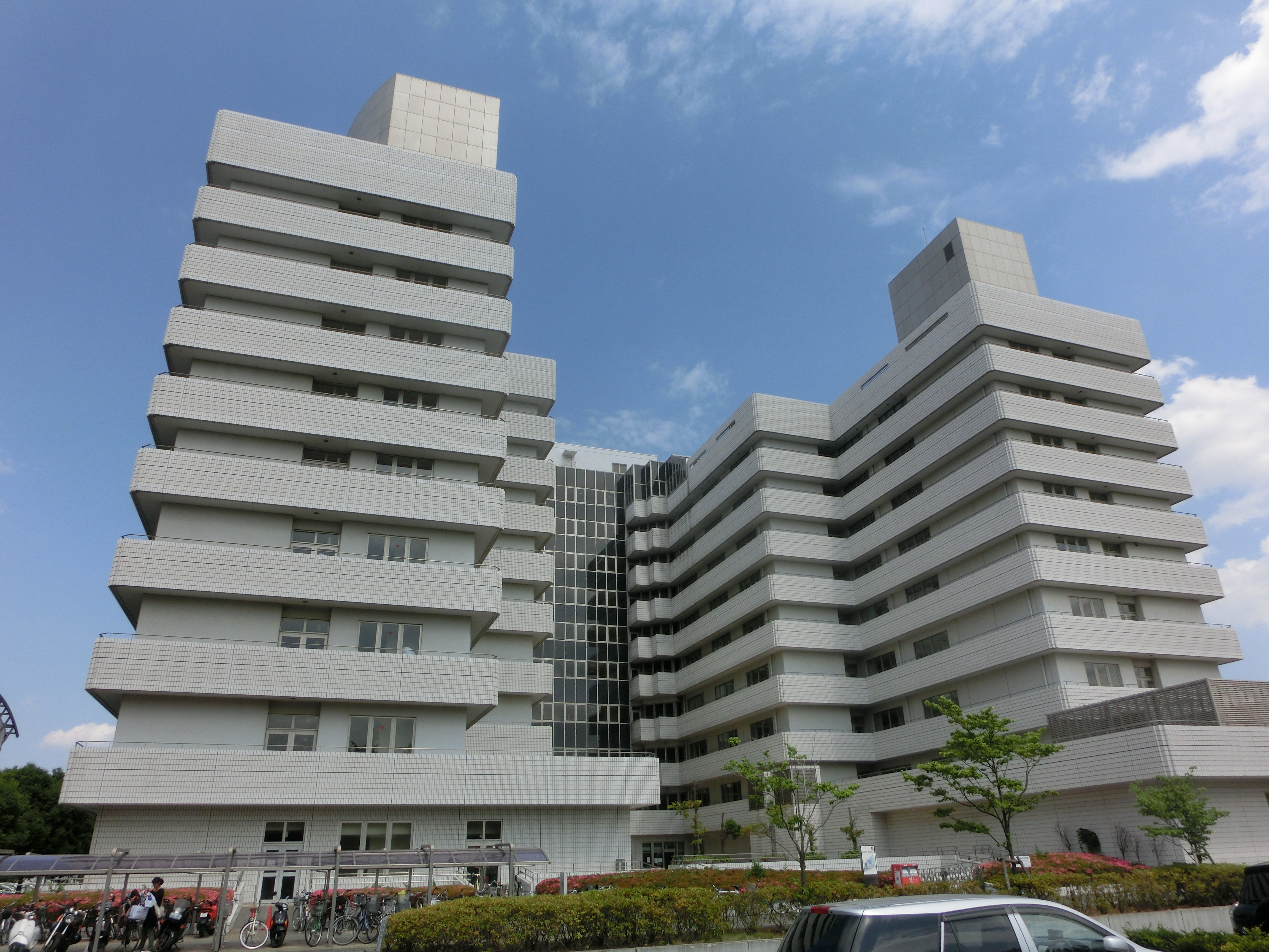 National Hospital Organization Tokyo Medical Center